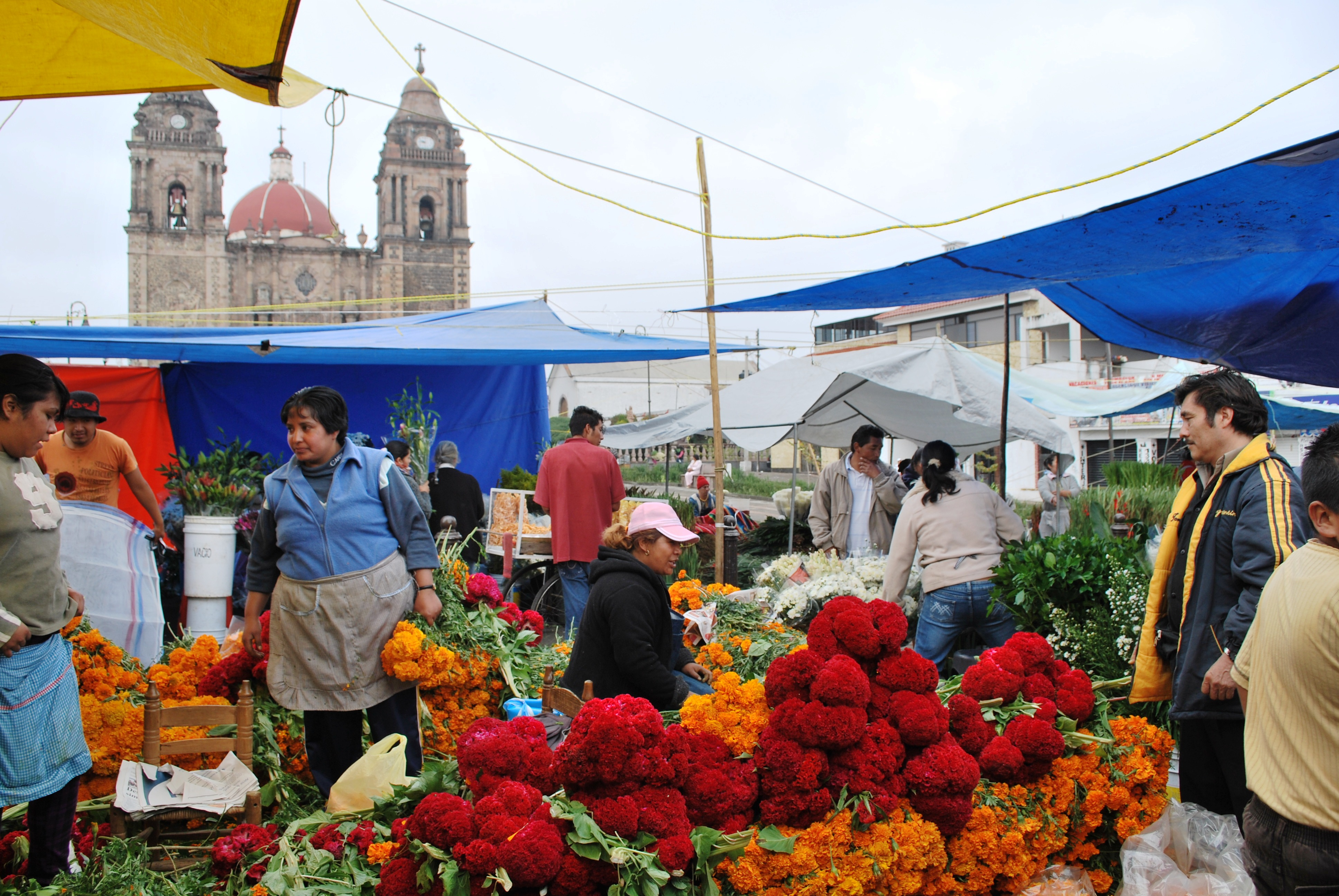 View of the Day of the Dead market with church in the background in Santiago Tianguistenco, Mexico State